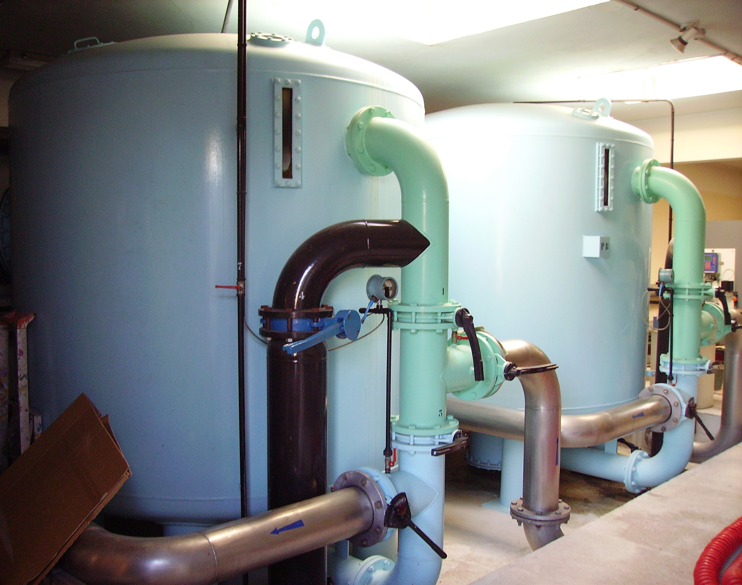 Anthracite-sand filtration tanks for a public swimming pool.